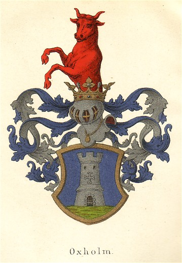 Coat of arms of Oxholm family